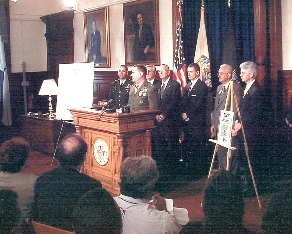 2003 ESGR New Jersey Governor Ceremony photo